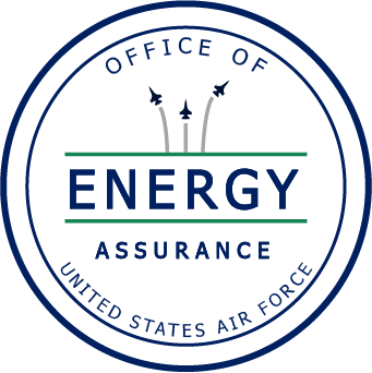 OEA Logo